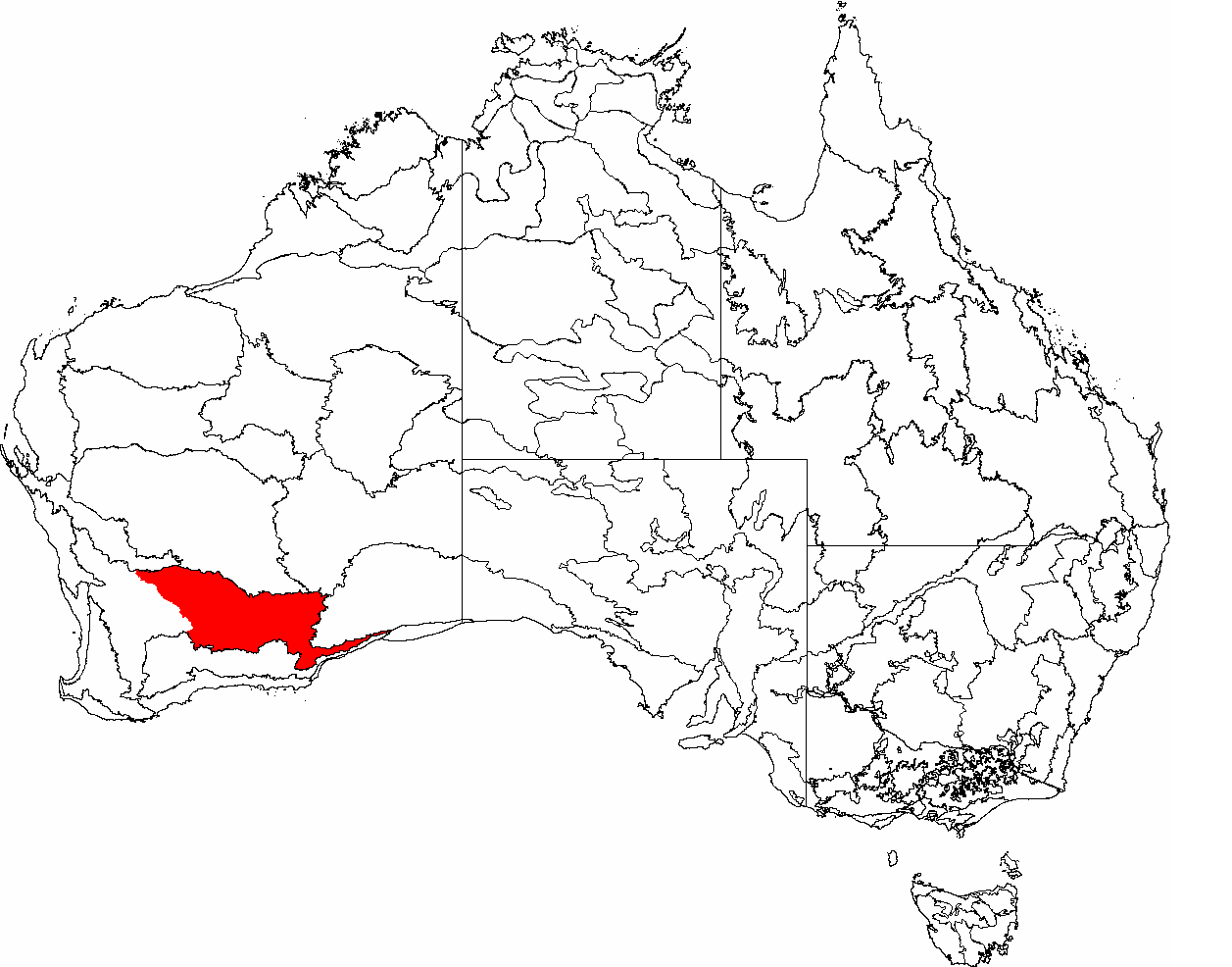 This is a map of the Interim Biogeographic Regionalisation of Australia (IBRA), with state boundaries overlaid. The Coolgardie region is shown in red.